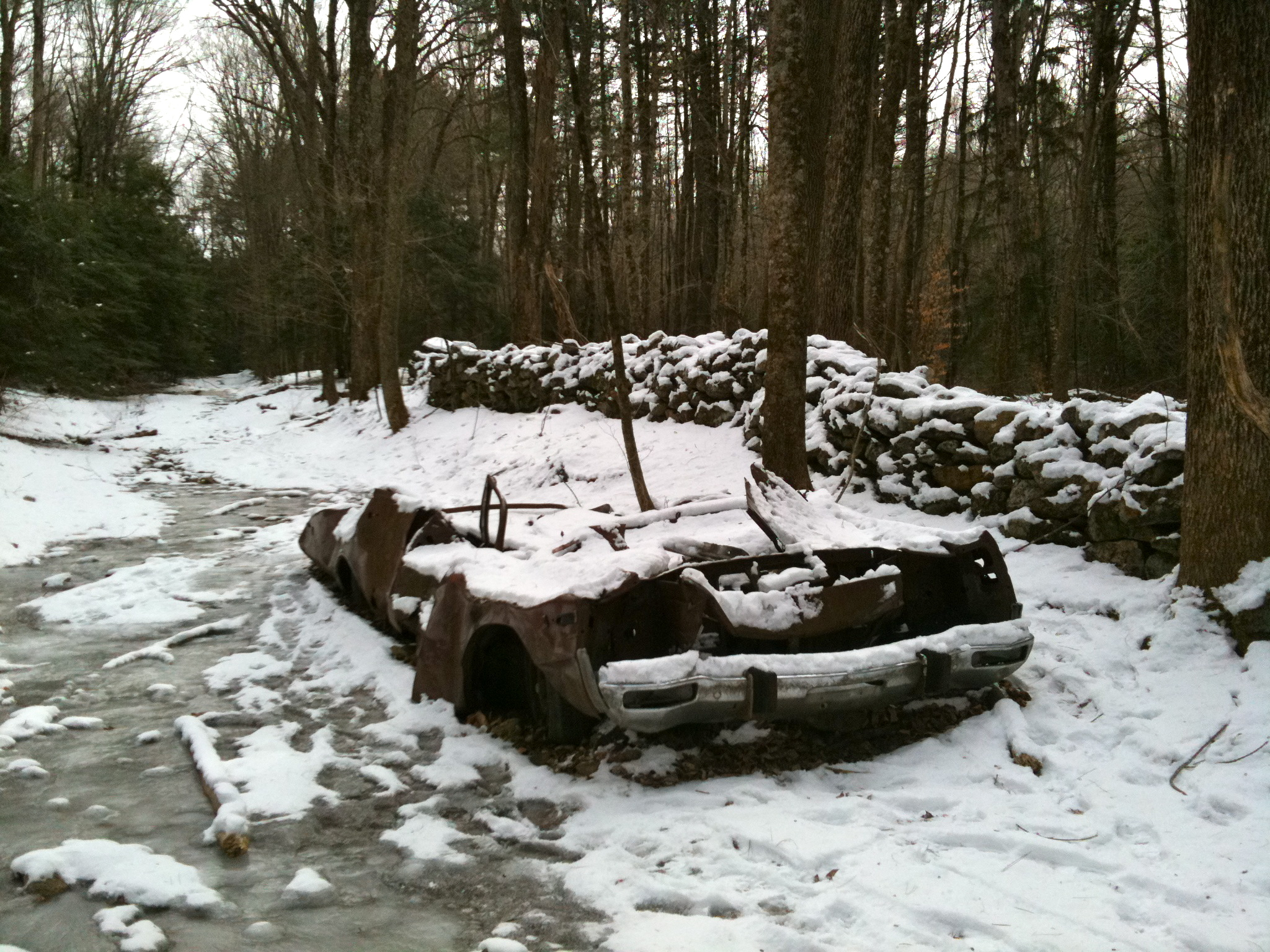 Salmon River Trail Car wreck in the snow on the CFPA Blue-Blazed Trail Salmon River Trail North Loop (near Day Pond Brook).